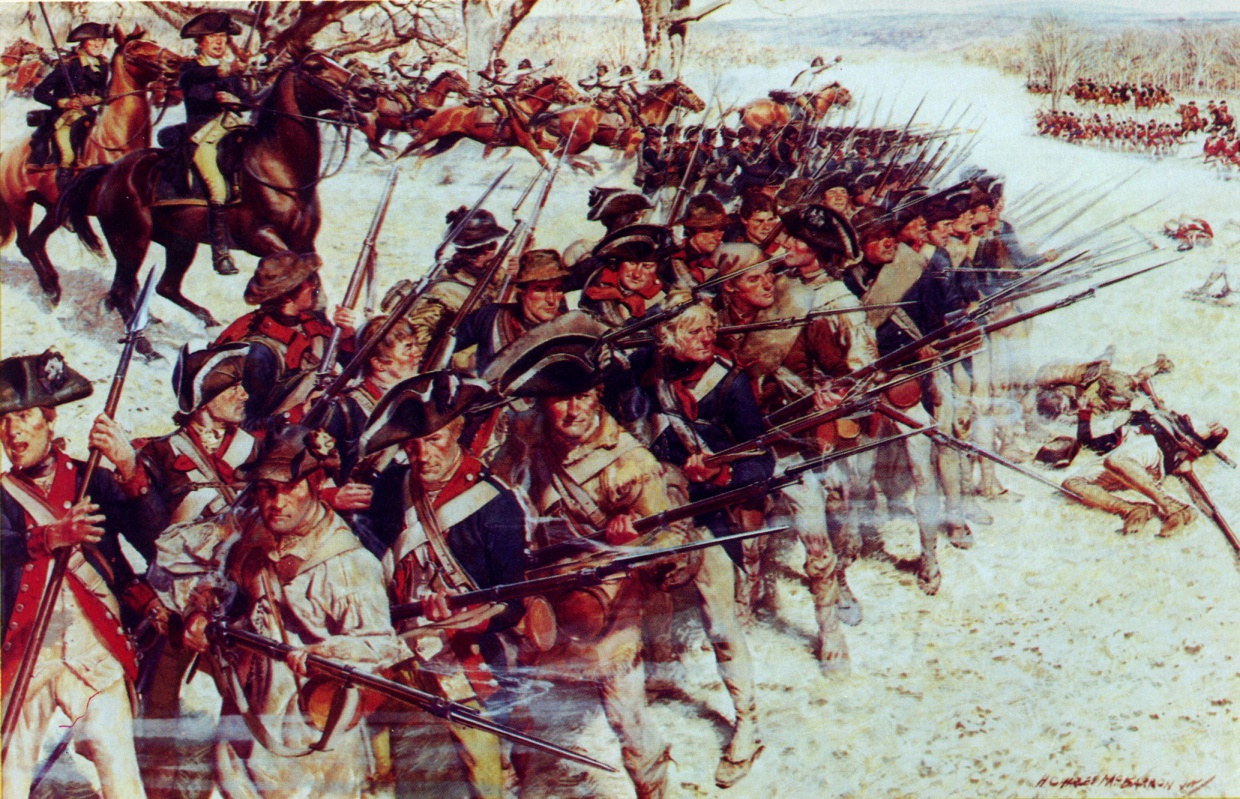 Battle of Guilford Court House